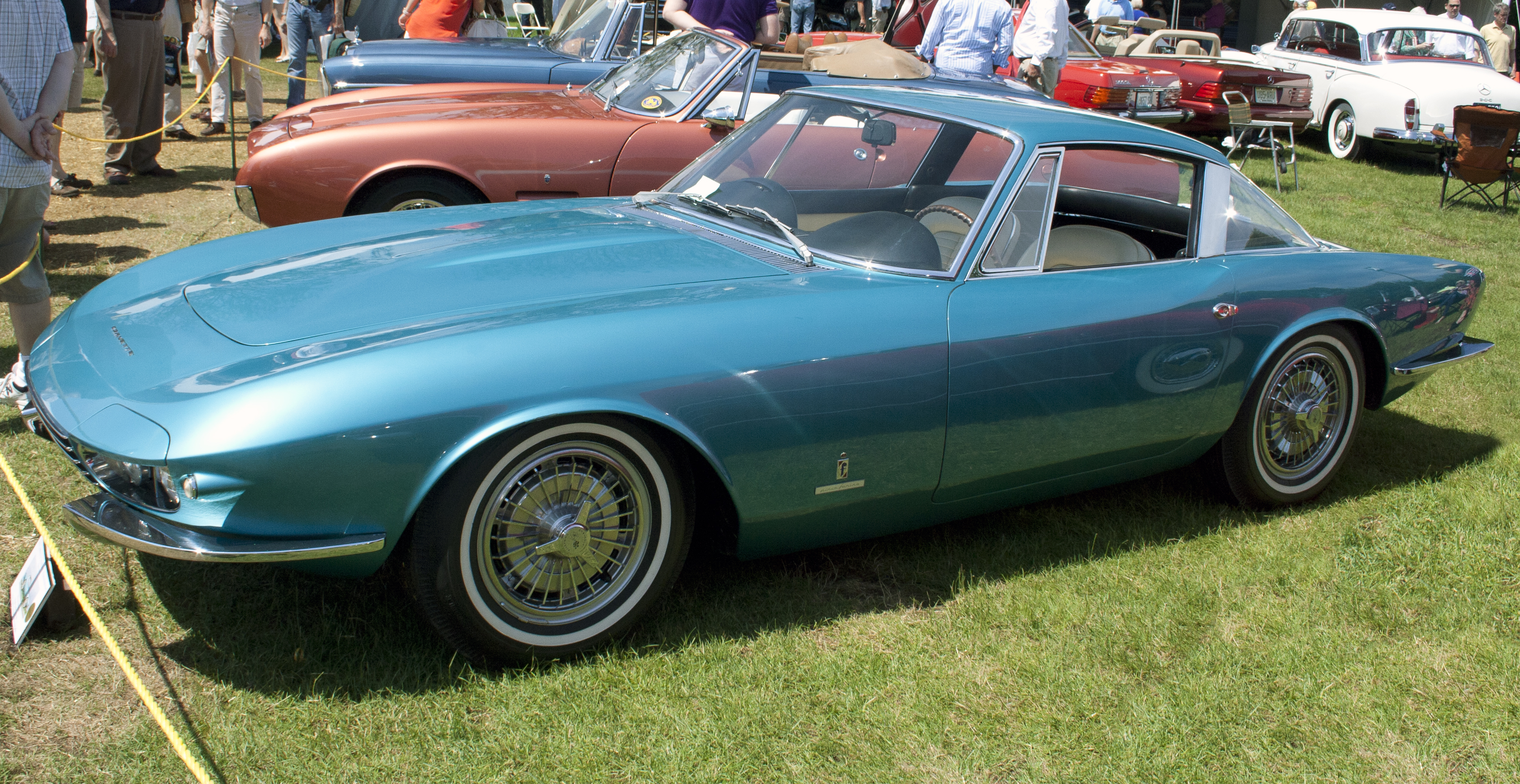 One-of-a-kind 1963 Chevrolet Corvette Rondine coupé by Pininfarina photographed at the 2012 Greenwich Concours d'Elegance. This is the only Italian-styled Corvette ever built.